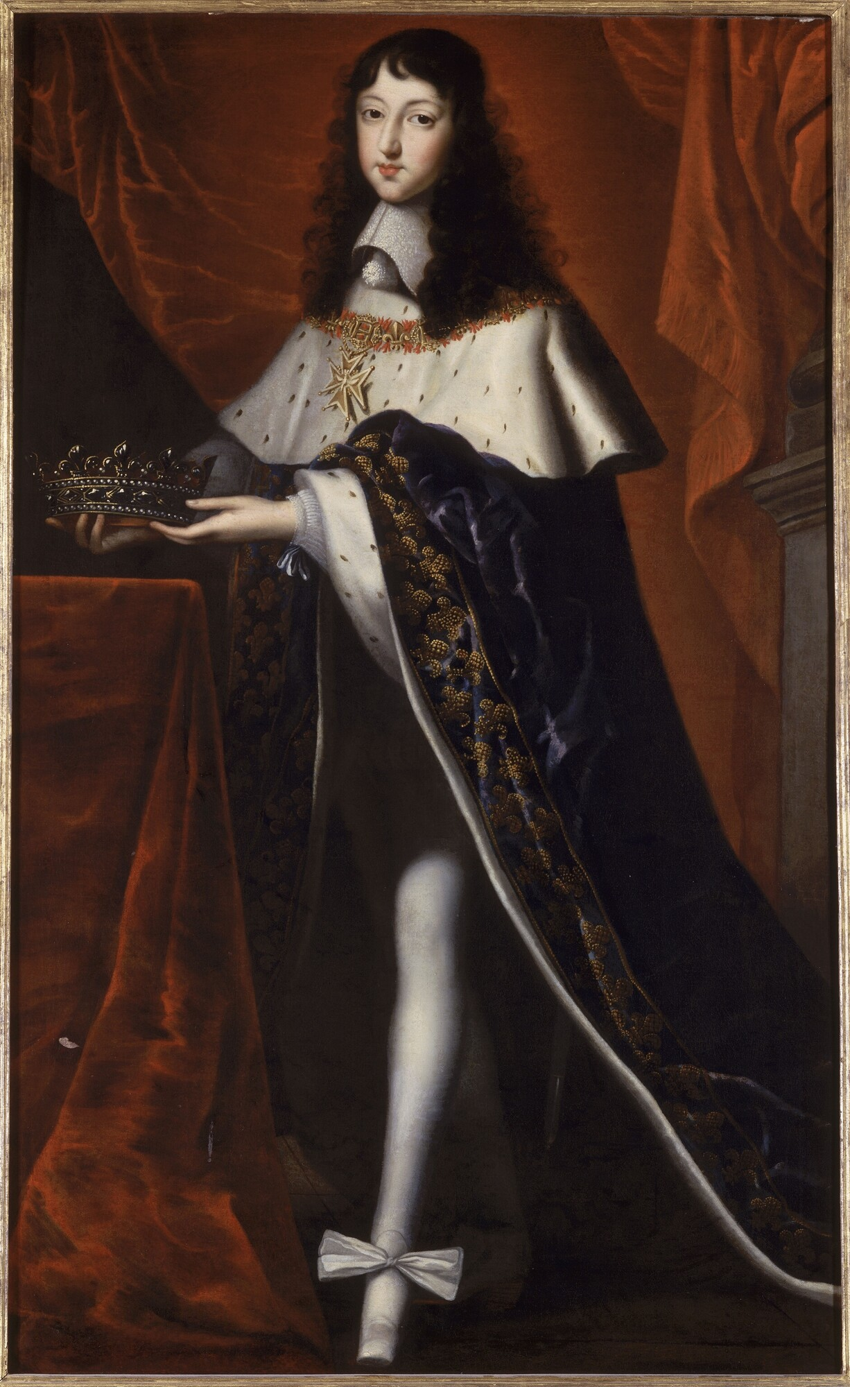 Philippe de France, Duke of Anjou wearing the clothes he wore to his brother coronation; he holds the crown of a son of France